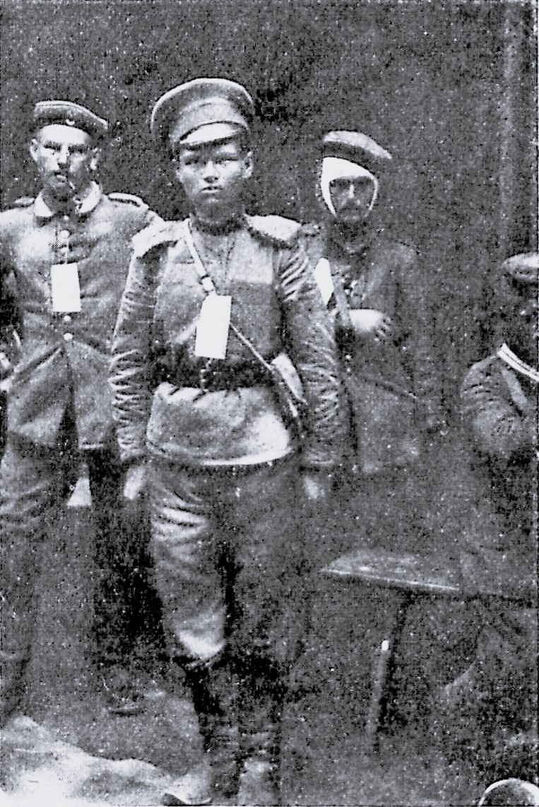 A wounded Russian female soldier who had fought in the front, captured by German troops